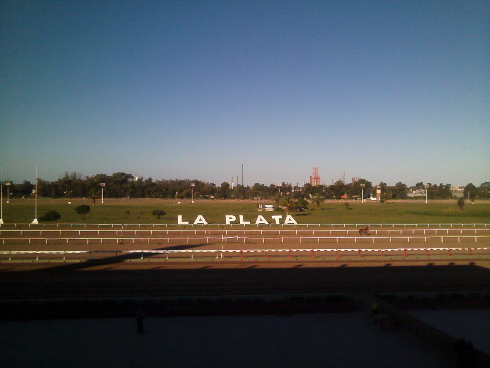 General view from Paddock stand.